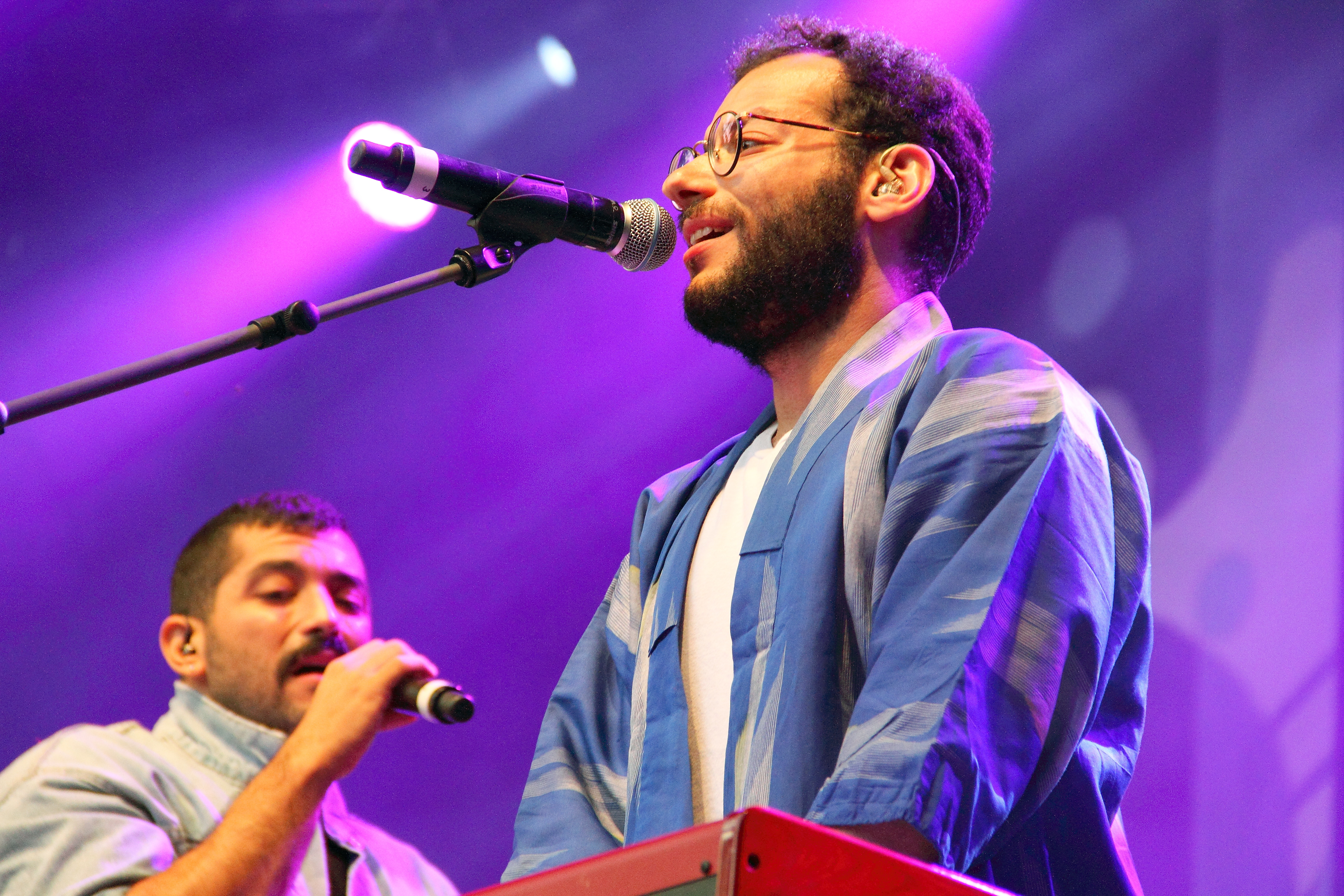 Mashrou' Leila from Lebanon at Rudolstadt-Festival 2018.